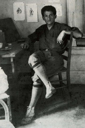 Photo of Boris Aronson in the NYC in 1920